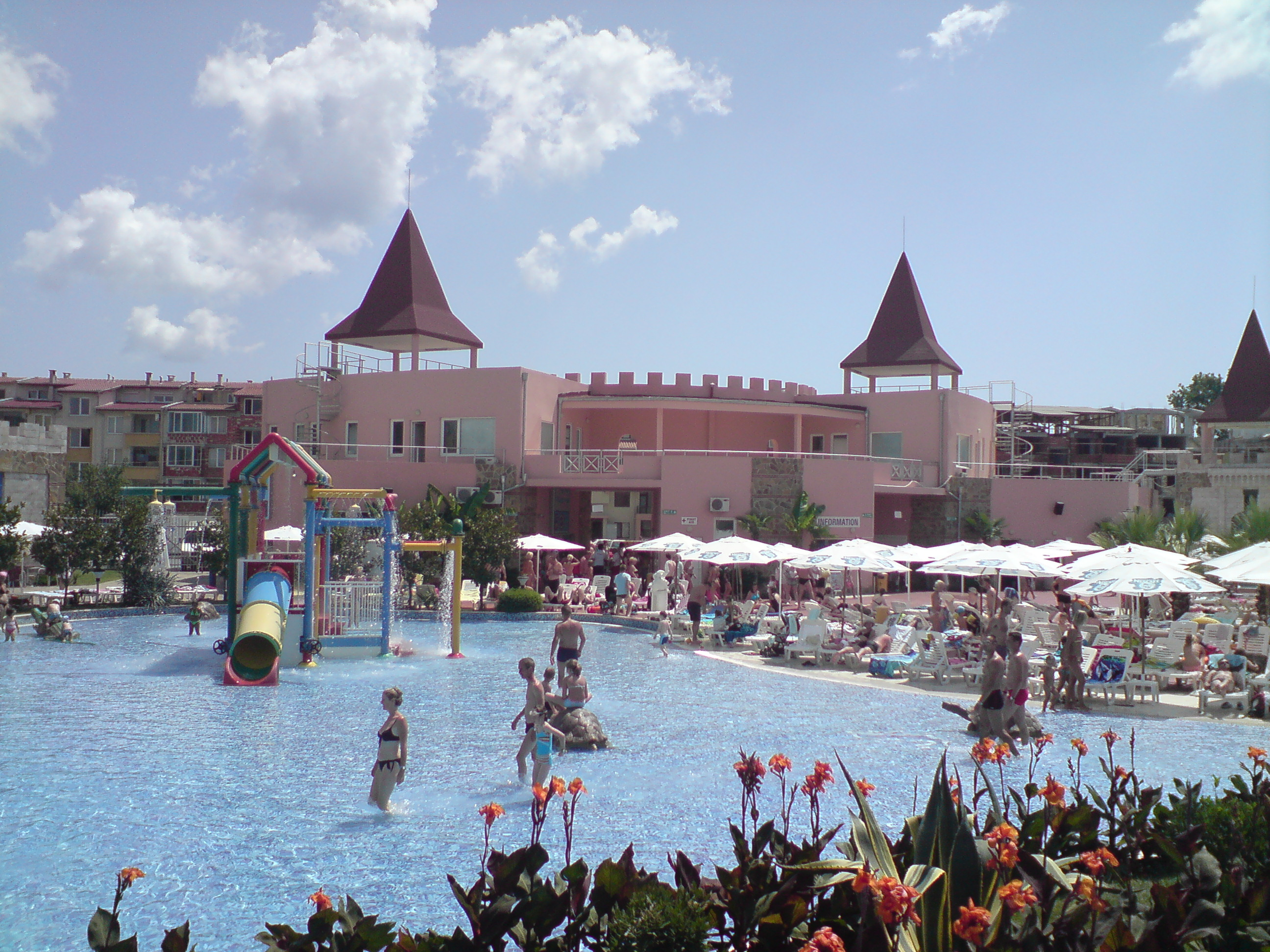 Sunny Beach, Bulgaria, july/august 2008